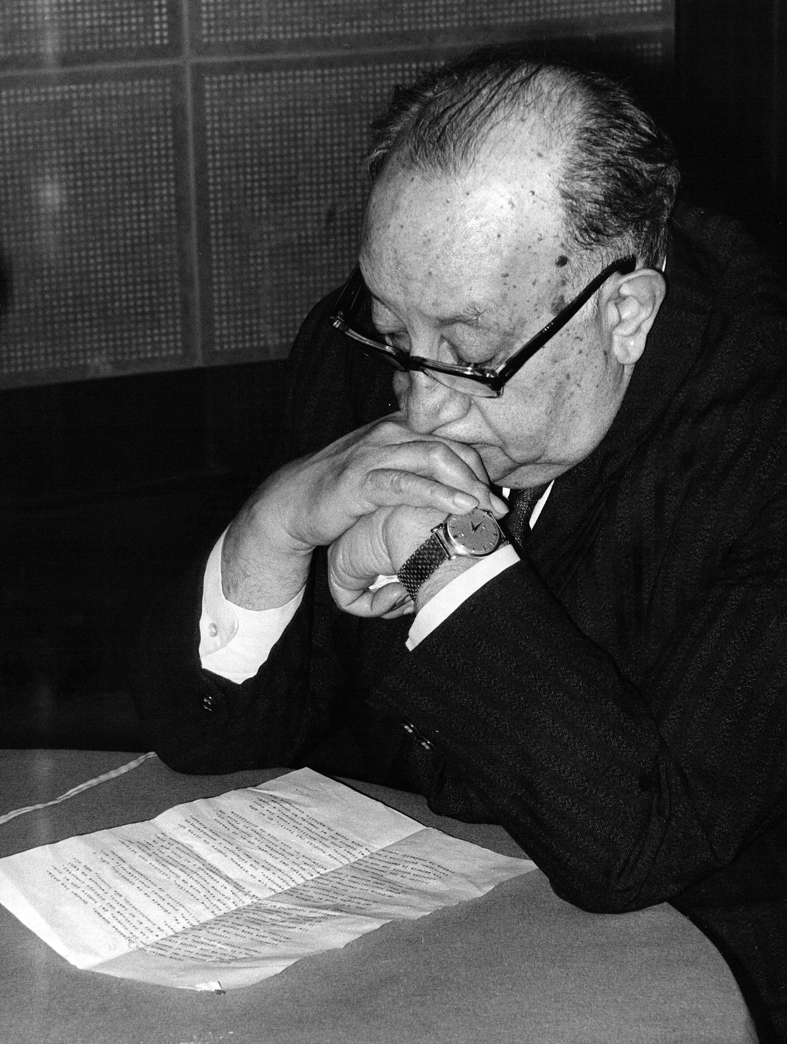 Miguel Angel Asturias, Nobel Prize of Litterature 1967, at the UNESCO's studios